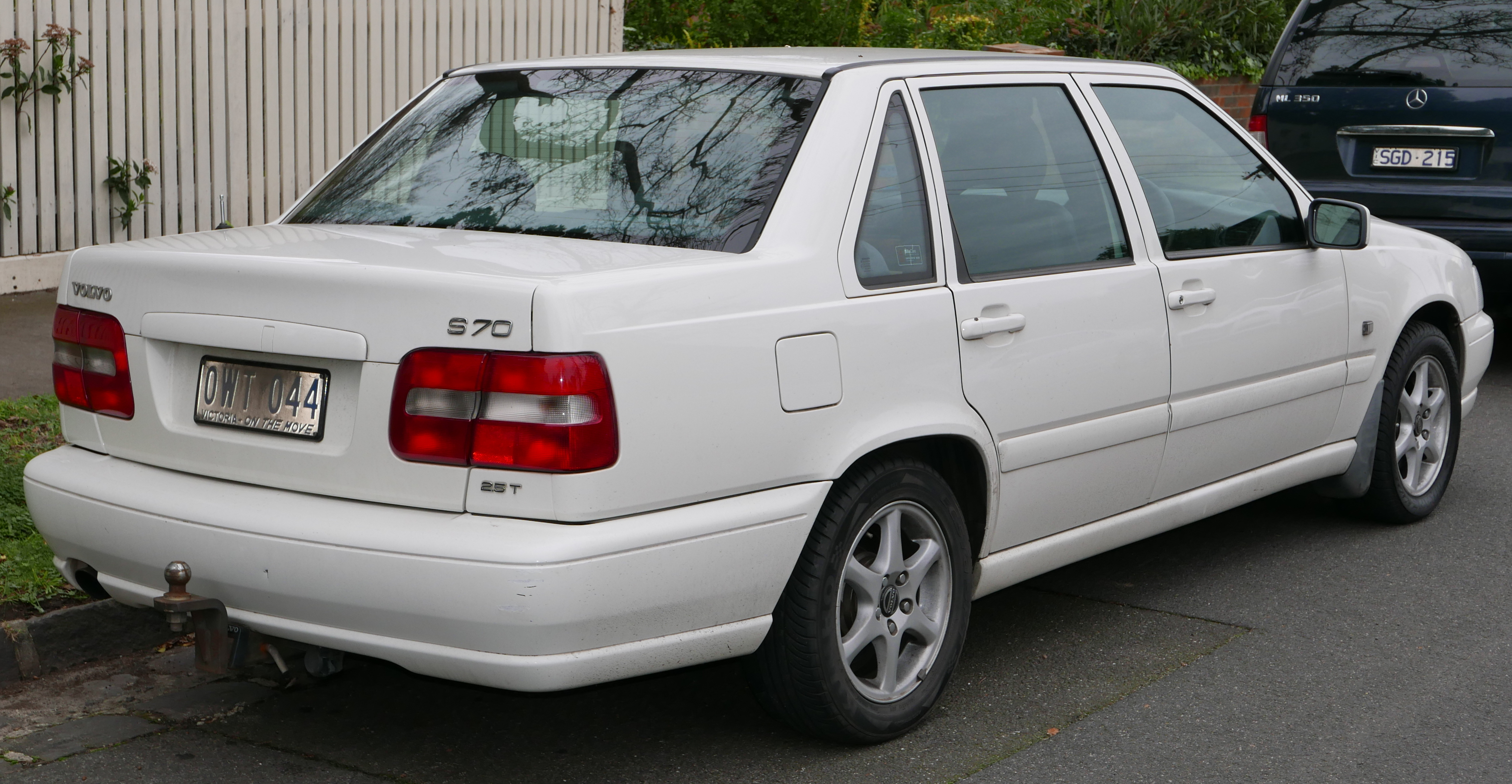 1998 Volvo S70 2.5T sedan. Photographed in Kew, Victoria, Australia. Vehicle registration enquiry results Jurisdiction Victoria Registration OWT044 Chassis code YV1LS5606W2481952 Engine code 1148040 Compliance date 1998-05 Year of manufacture 1998